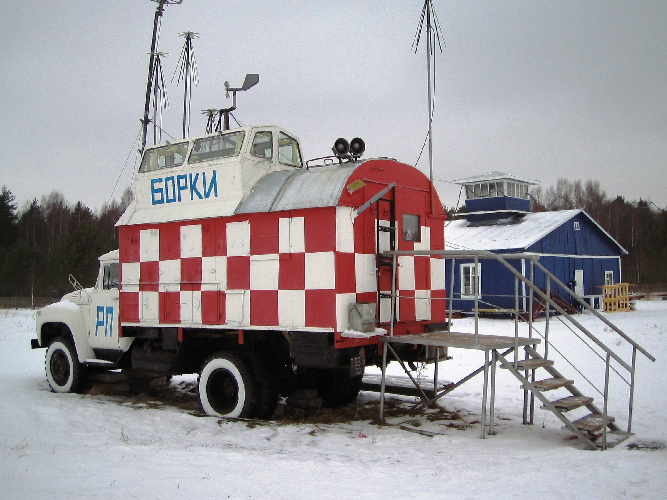 Mobile air traffic control tower in Russia - Borki air field south of Kimry, Tver Oblast (Kimry Airport, Борки (аэродром)).